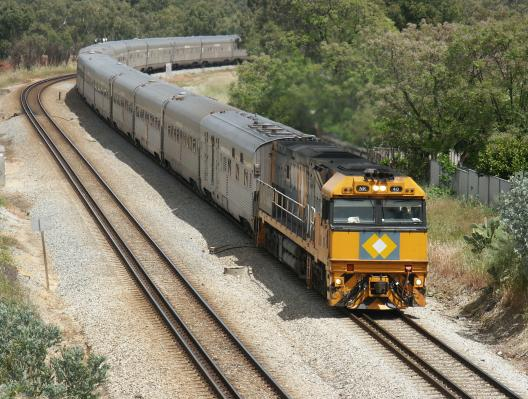 Indian Pacific passenger train at Bellevue, Western Australia.